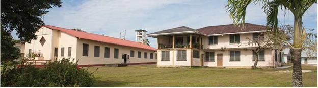 St. Peter Roman Catholic Church building and rectory in Punta Gorda town, Toledo District, Belize